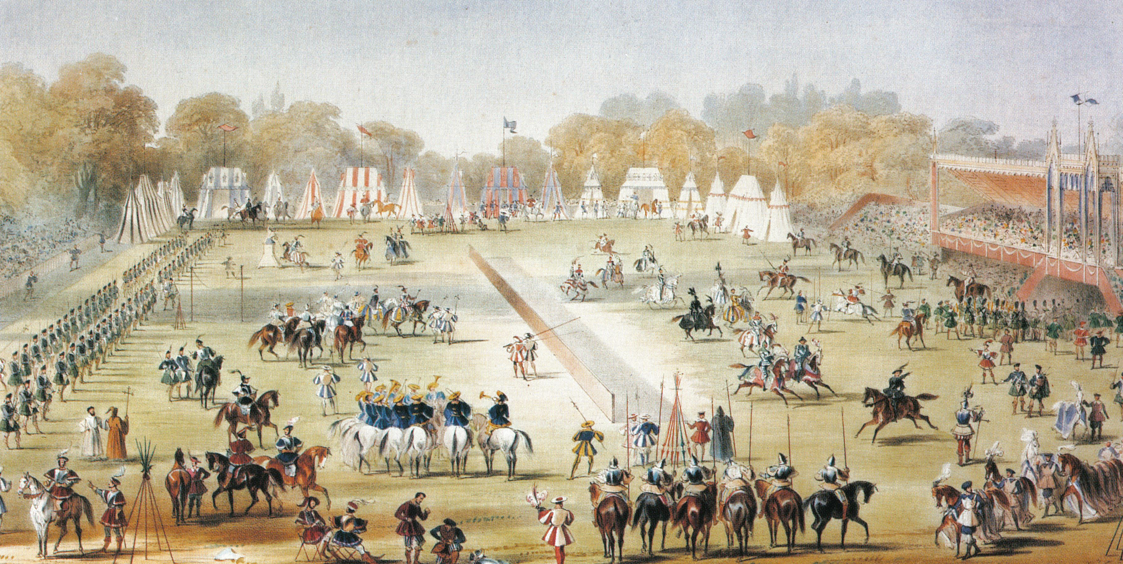 A View of the Lists. Eglinton Tournament. Irvine, Ayrshire, Scotland.